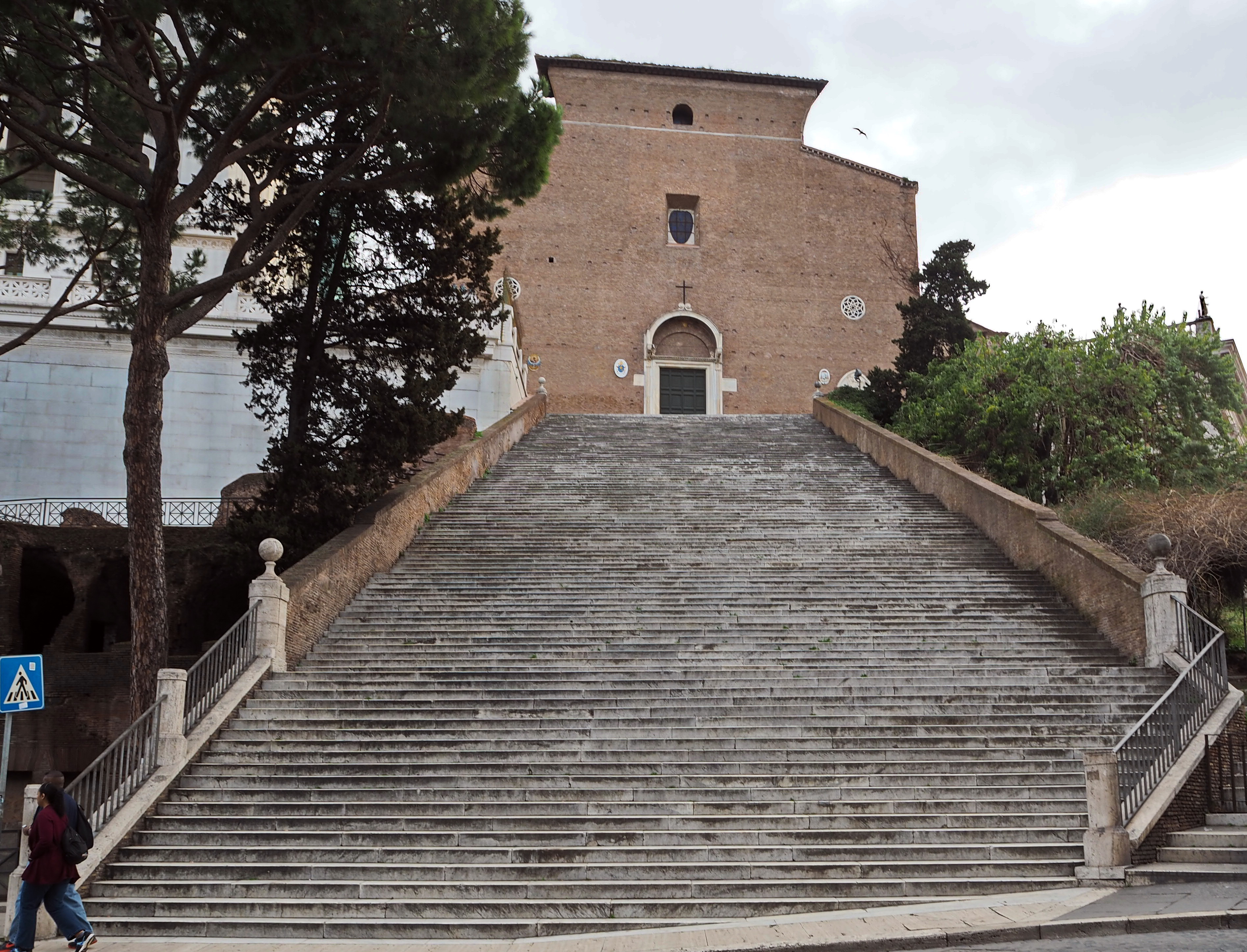 Santa Maria in Aracoeli (Rome); Steps of Andreozzi and Facade